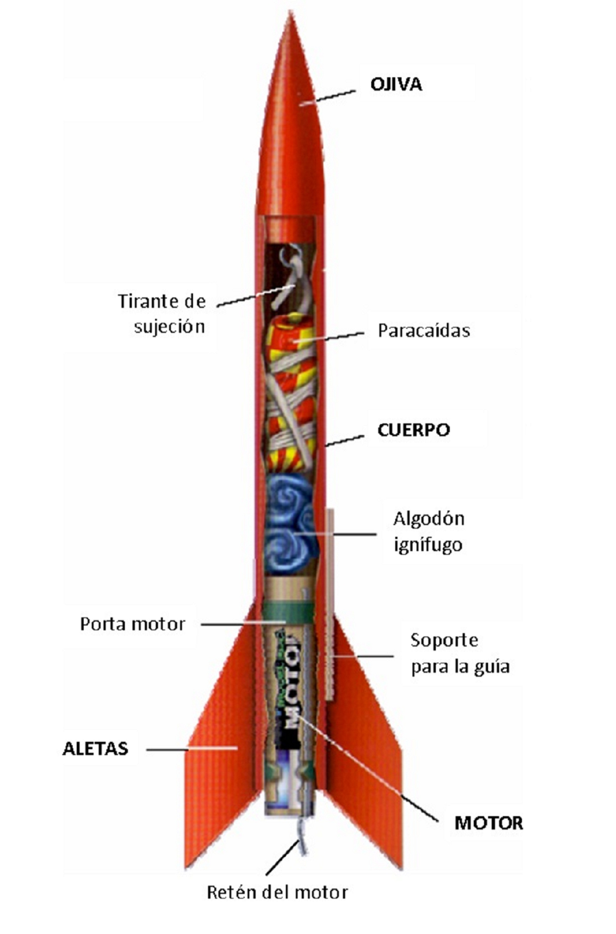 Basic Model rocket parts